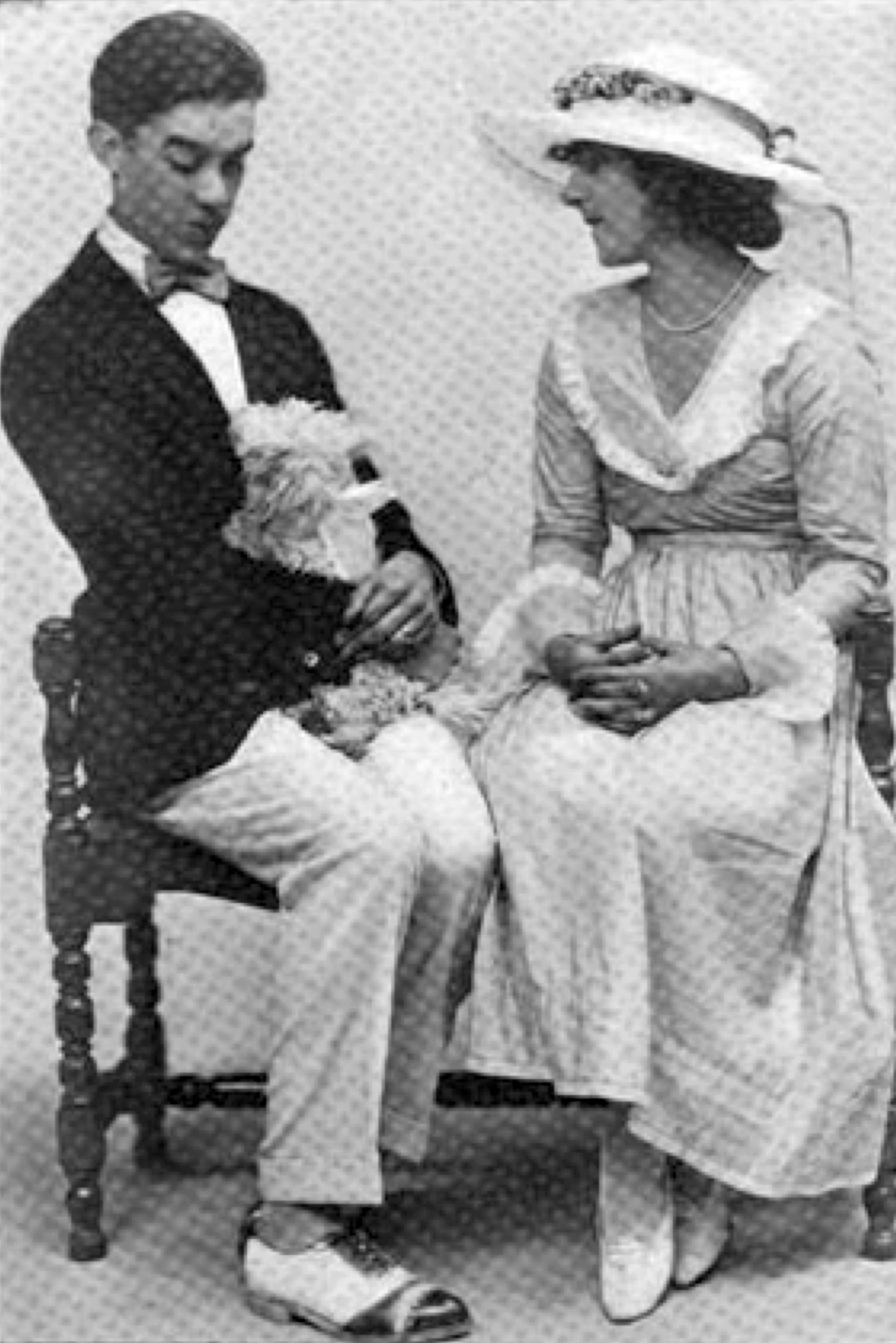 Photograph of Gregory Kelly (Willie Baxter, holding Flopit) and Ruth Gordon (Lola Pratt) in Seventeen